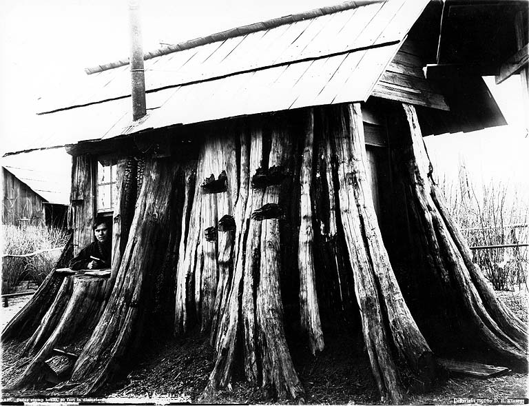 Darius Kinsey photograph of cedar stump house, Edgecomb, Washington, 1901